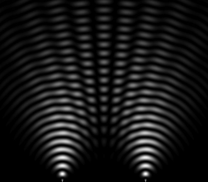 Simulation of the interferences between 2 point sources (as if the time was stopped). Made by myself.